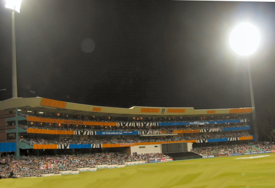 Sahara Stadium Kingsmead Photo by Paddy Briggs